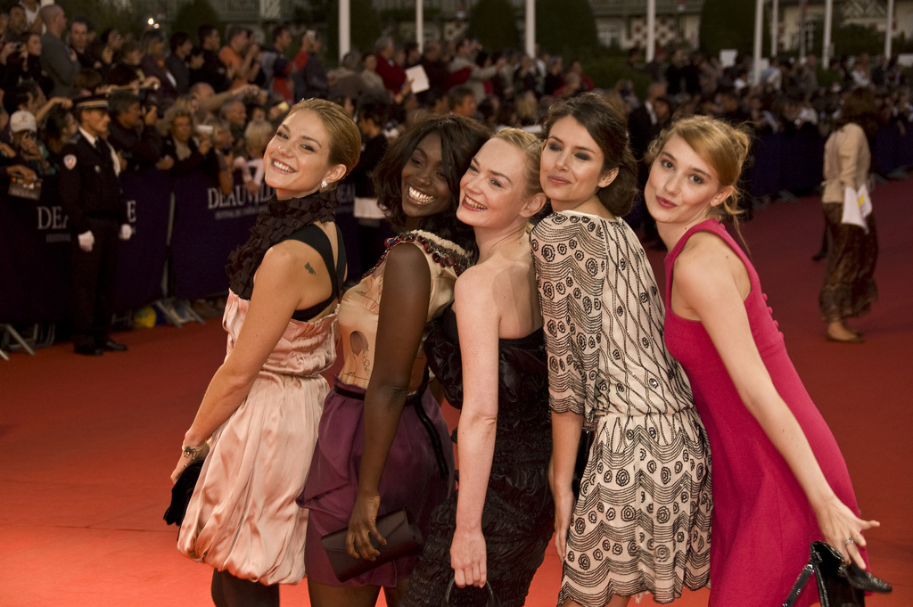 L to R: Émilie Dequenne, Aïssa Maïga, Sophie Quinton, Louise Monot and Déborah François at screening of the movie The Proposal.